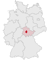 Landkreis Gotha, Thuringia, Germany